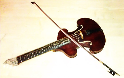 bowed zither